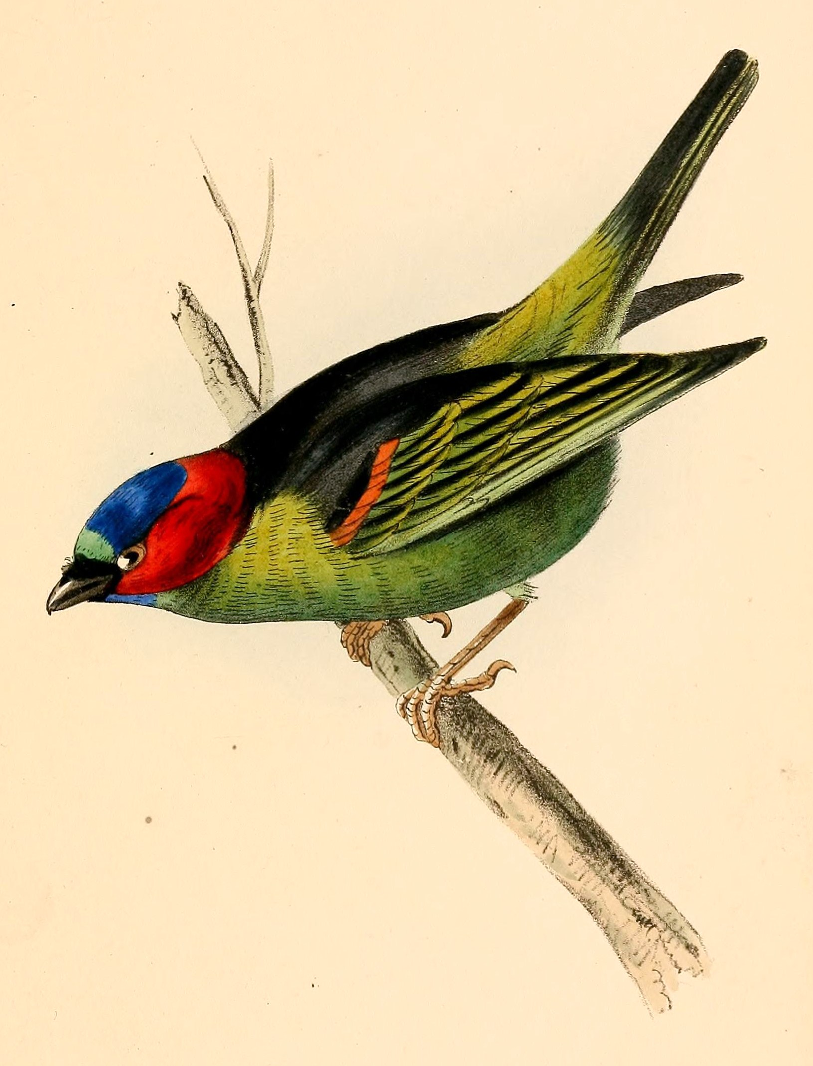 Aglaia cyanocephala = Tangara cyanocephala (Red-necked tanager)